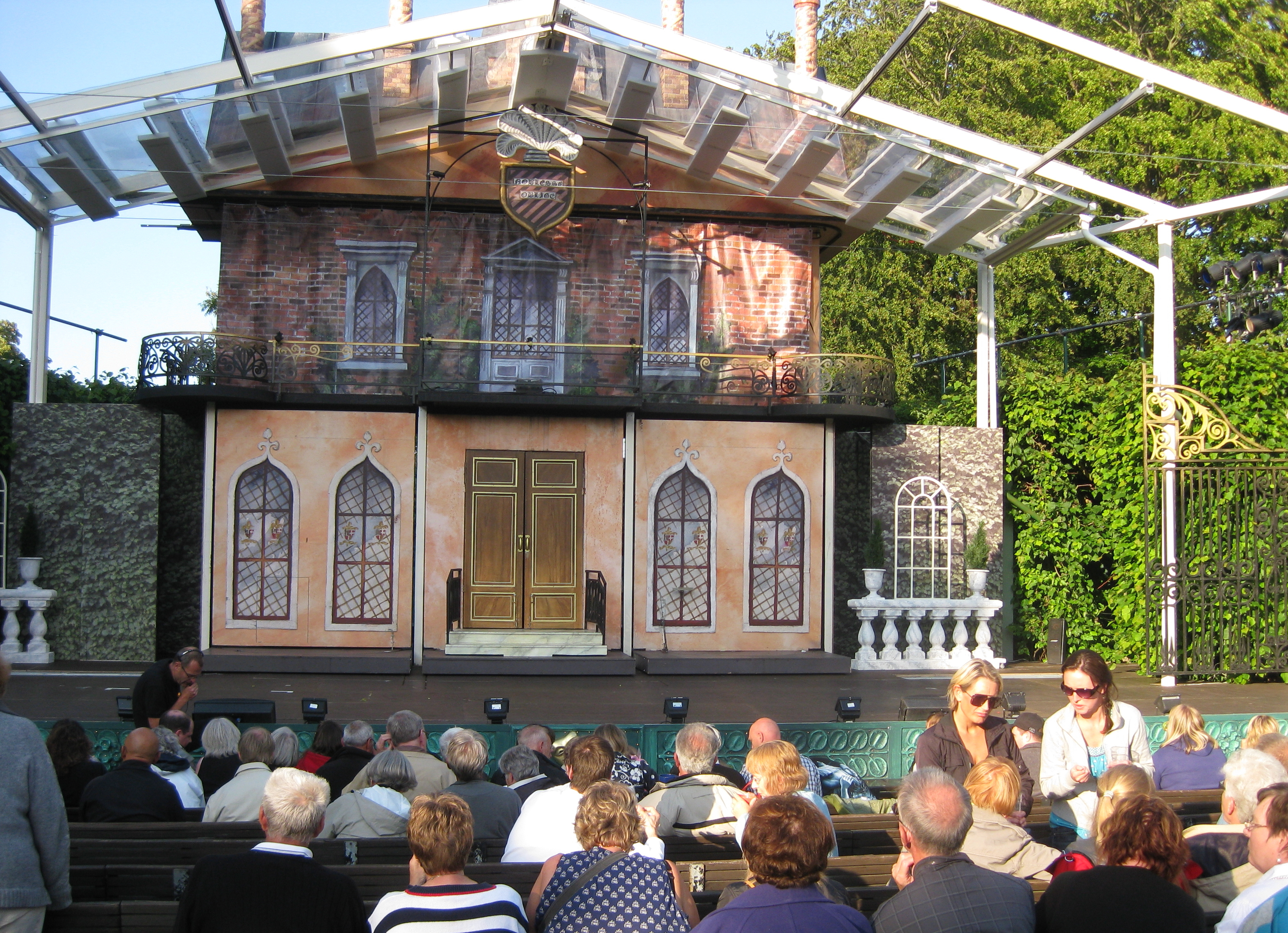 Fredriksdal outdoor theatre, Helsingborg, Sweden